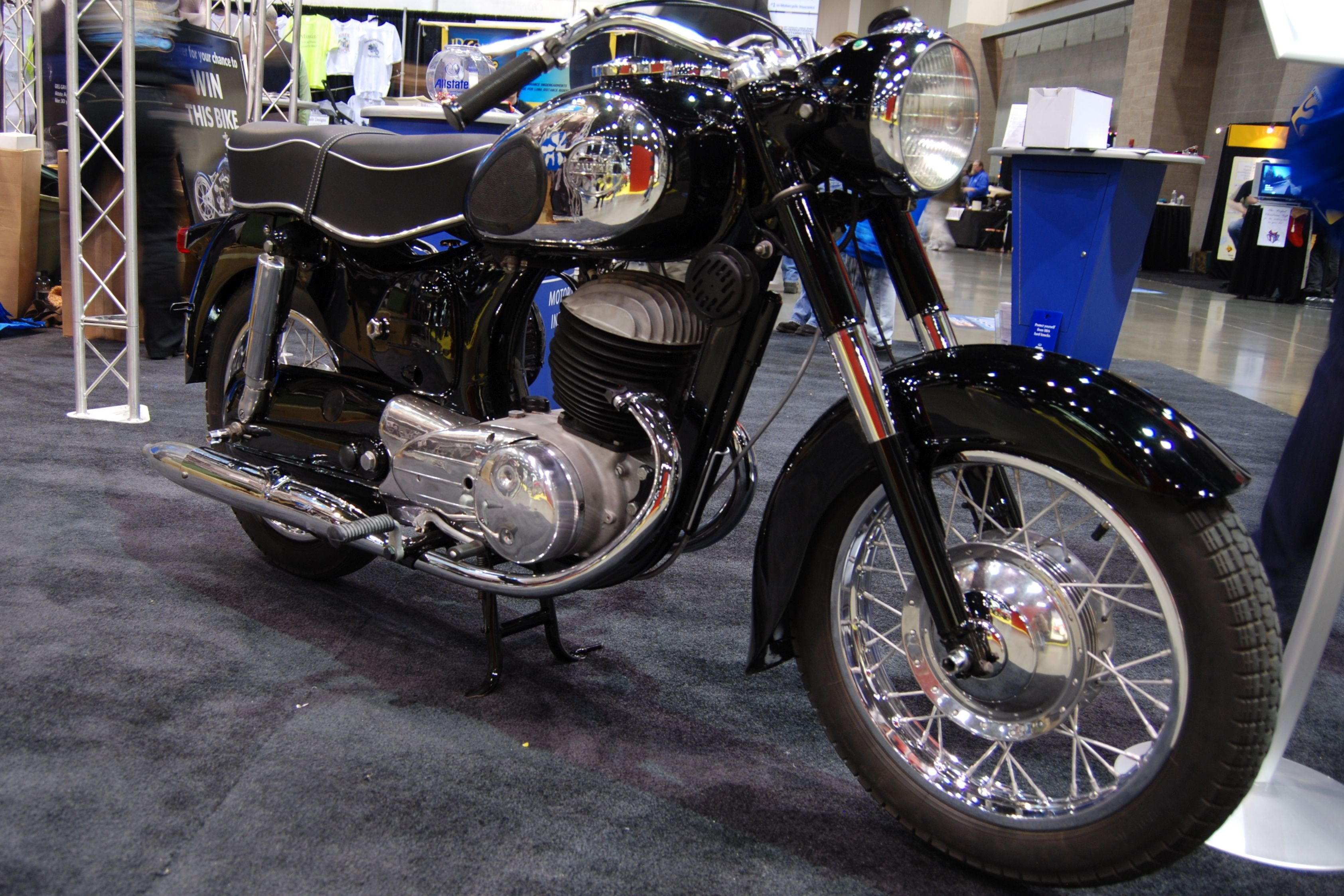 1965 Allstate Puch 250 SGS at the 2009 Seattle International Motorcycle Show. Sold for US$ 499.95 in the Sears Catalog. Made by Steyr Daimler Puch AG. Introduced 1 October 1953, and produced until 1970, with over 38,000 units made. Powered by 250 cc, two-piston, one-cylinder, two-stroke engine, called the "Twingle."